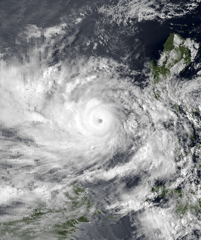 Typhoon Sarah (Trining-Uring) on October 9, 1979